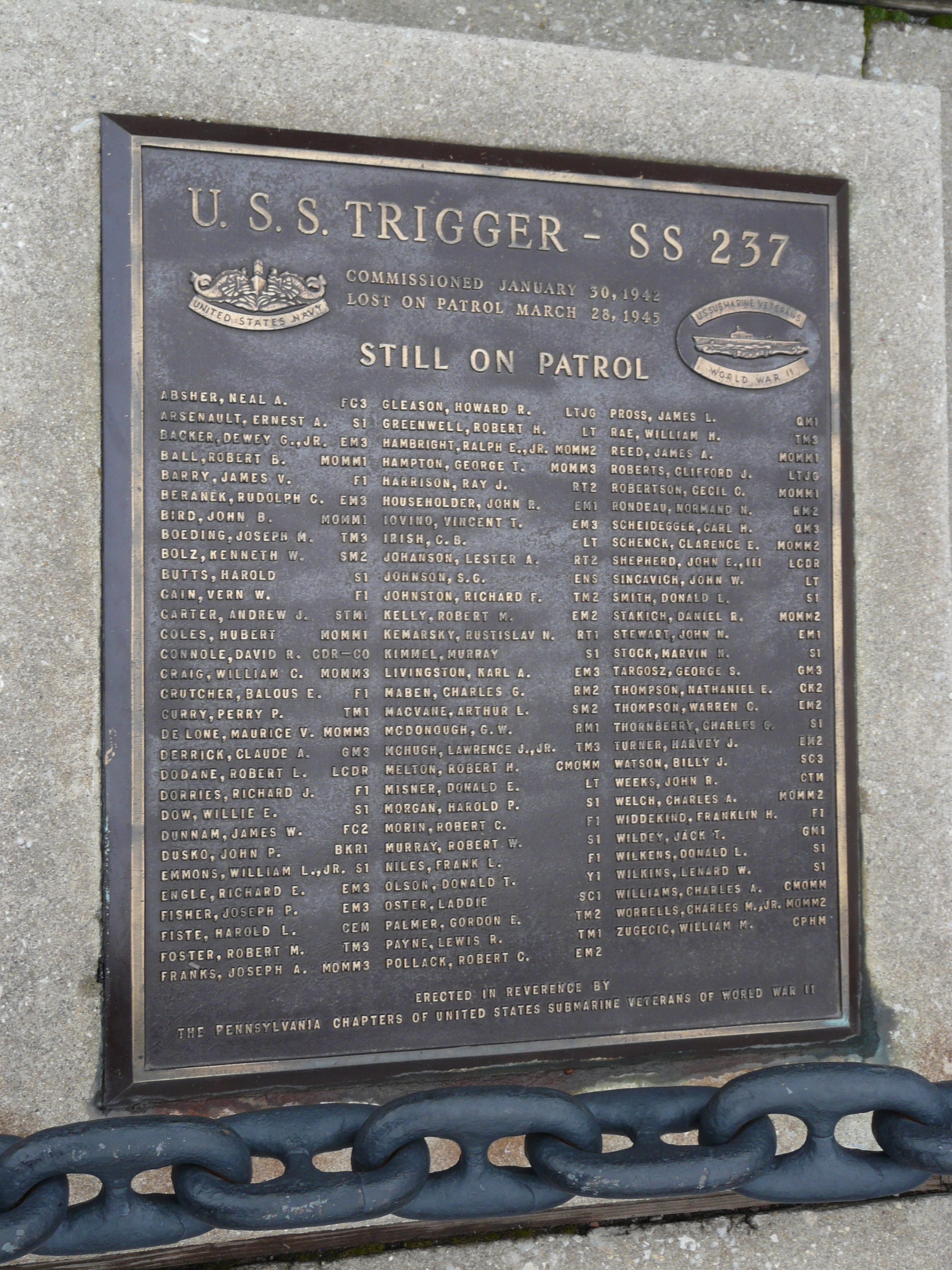 Memorial near USS Olymia and Becuna